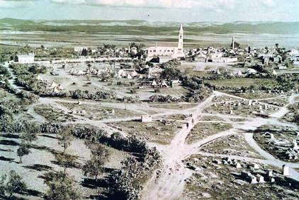 A view of the town of Ramle